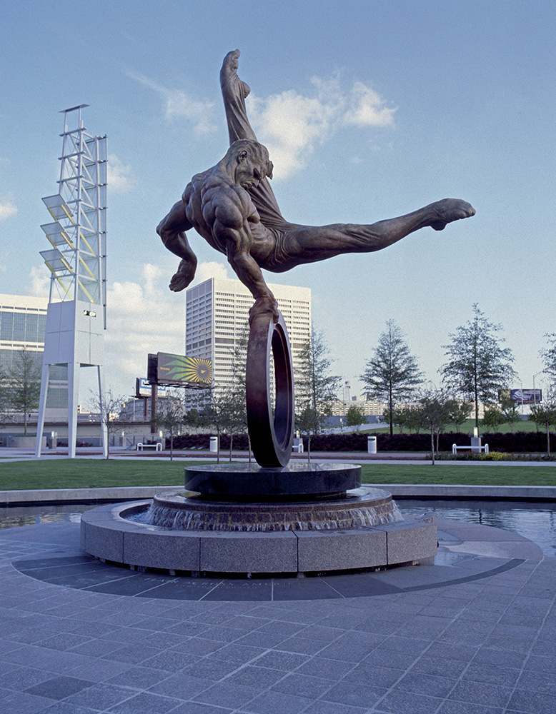 The Flair Monument, by sculptor Richard MacDonald installed in Atlanta GA.